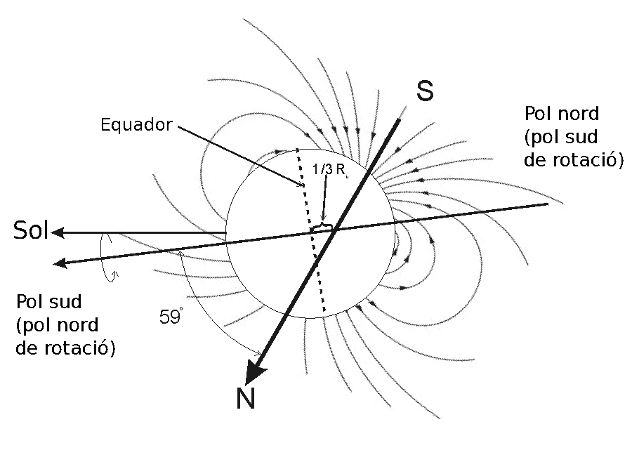 This image depicts the magnetic field of Uranus as seen by Voyager 2 in 1986. The image of dipole from Wikimedia Commons was used. This picture was created for Uranus article.